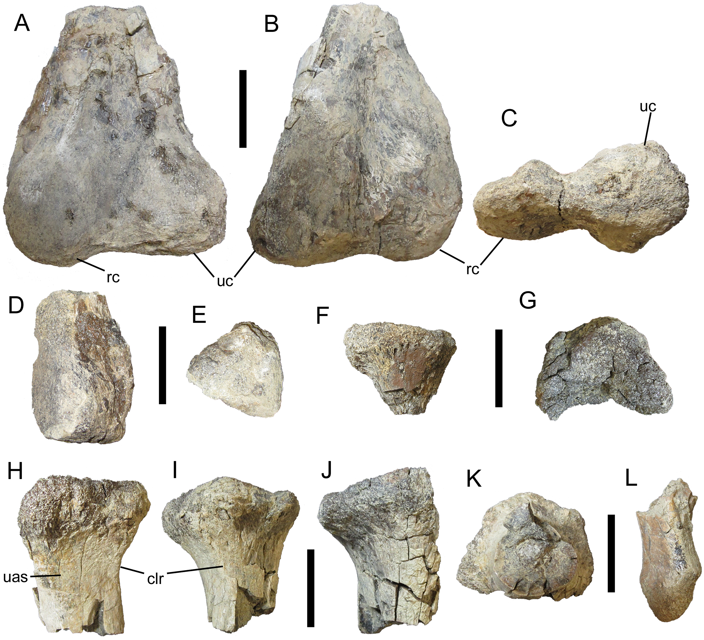 Original figure caption: Appendicular elements of UMNH VP 28350, referred specimen of I. zephyri. Distal end of left humerus in (A) cranial, (B) caudal, and (C) distal views. Distal end of left ulna in (D) medial and (E) distal views. (F) Proximal end of left radius, orientation uncertain. Proximal end of right radius in (G) proximal, (H) lateral, (I) cranial, (J) medial, and (K) distal views. (L) Metacarpal, orientation uncertain. Study sites: clr, craniolateral ridge; rc, radial condyle; uas, articulation surface for ulna; uc, ulnar condyle. Scale bars equal five cm.